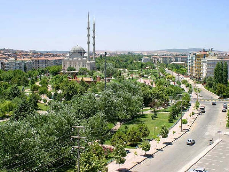 100. Yıl Atatürk Kültür Park with Ulu Camii Mosque in the background (Gaziantep, Turkey)